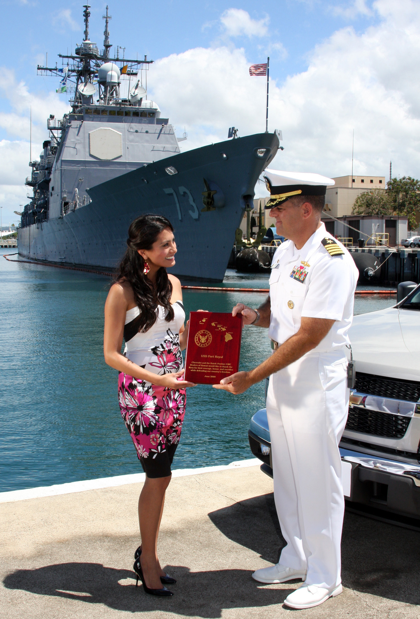 PEARL HARBOR, Hawaii (June 21, 2008) Yasmine Dar, host of the local TV show "Ohana Road," presents a plaque to Capt. David Adler, commanding officer of the Pearl Harbor-based guided-missile cruiser USS Port Royal (CG 73) during a taping of the show at Merry Point Landing on board Naval Station Pearl Harbor. U.S. Navy photo by Chief Mass Communication Specialist David Rush (Released)